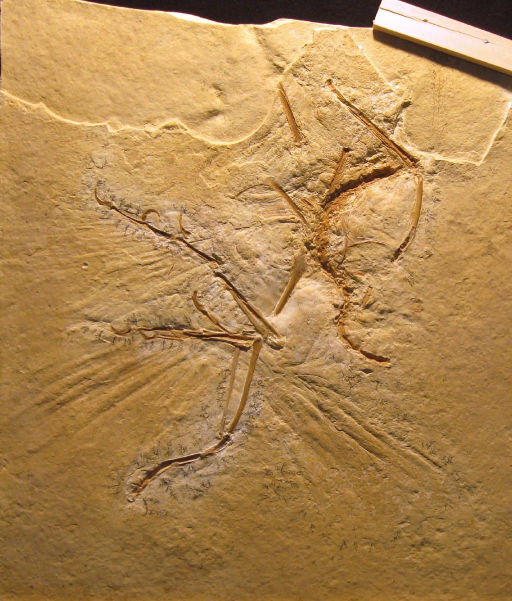 Archaeopteryx lithographica, cast of the lost Maxberg specimen, as displayed on the Munich Mineral Show 2009